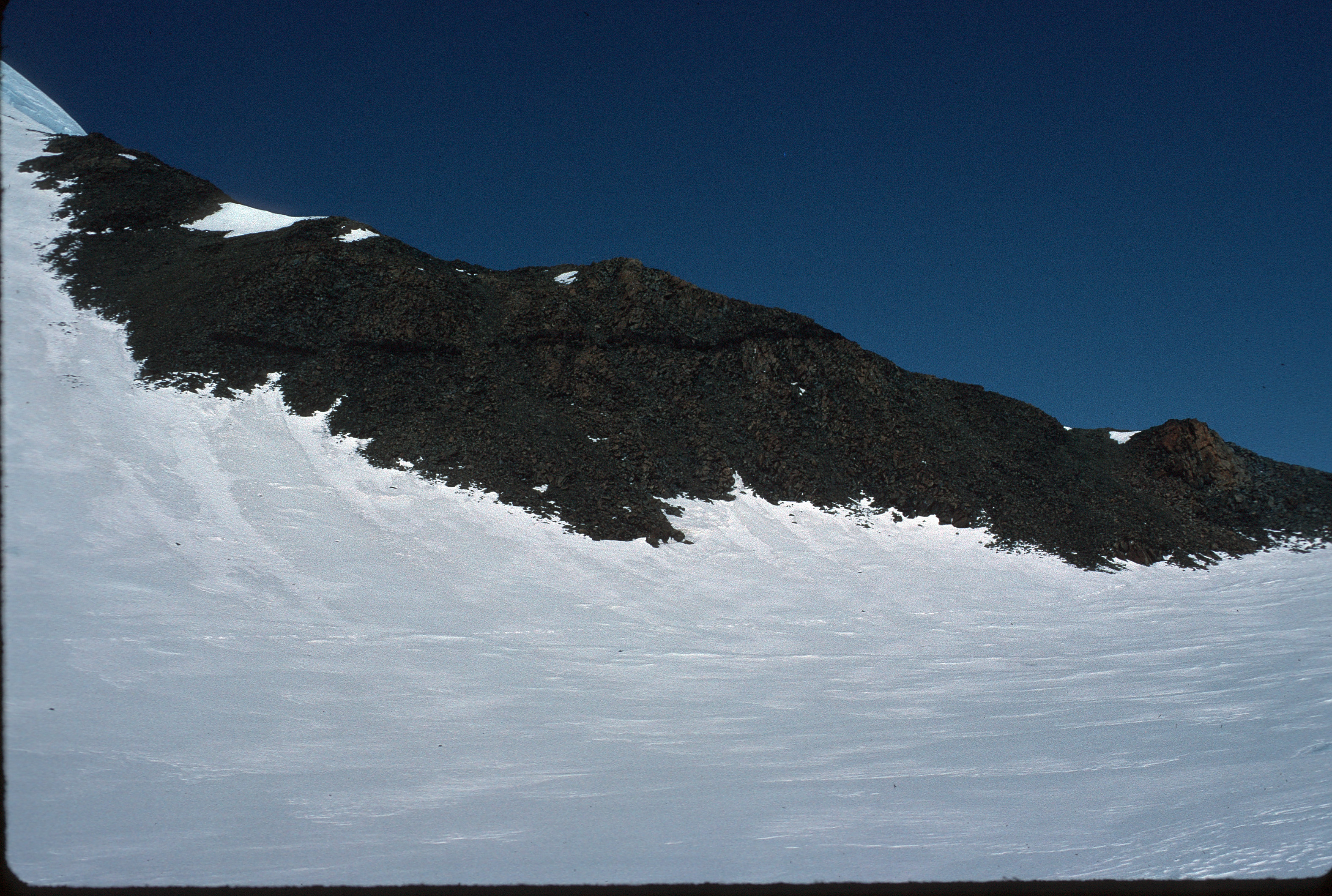 Goettel Escarpment sills cutting k-rich granite